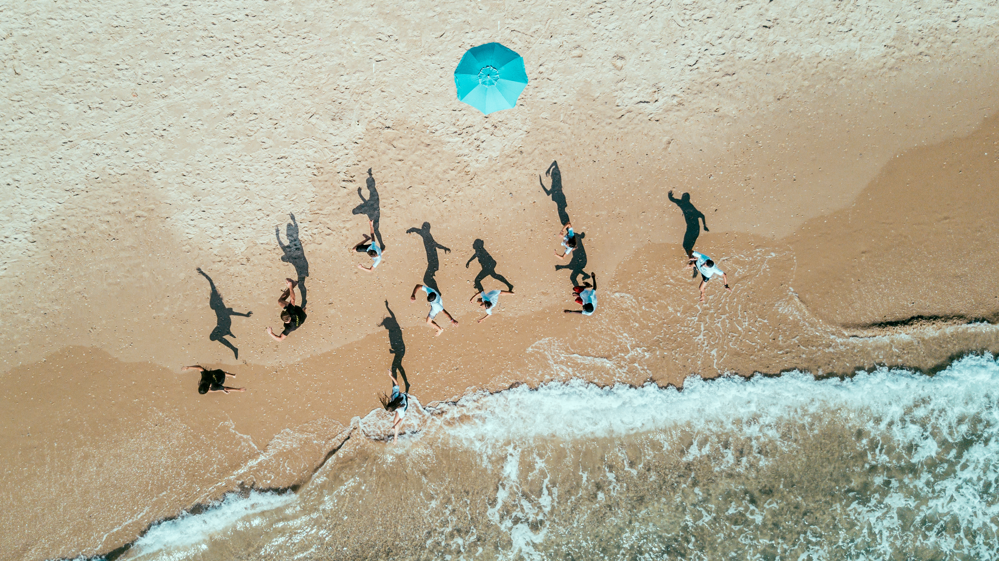 overhead at kimama galim